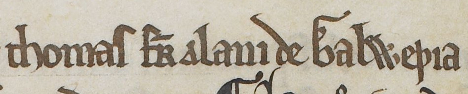 An excerpt from folio 42r of British Library Cotton MS Faustina B IX (the Chronicle of Melrose). The excerpt refers to Thomas fitz Roland, Earl of Atholl.